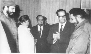 Che Guevara being received at Havana's Rancho Boyeros airport on 14 March 1965 upon his return from his extended international tour by:Fidel Castro, Carlos Rafael Rodriguez, Cuban President Osvaldo Dorticos, and Aleida March. Also present, but not seen in this photograph, are Raul Castro, and Che's nine-year-old daughter, Hilda Guevara Gadea. (Date: 14 March 1965). Publicada en la revista Verde OLiva en 1965.